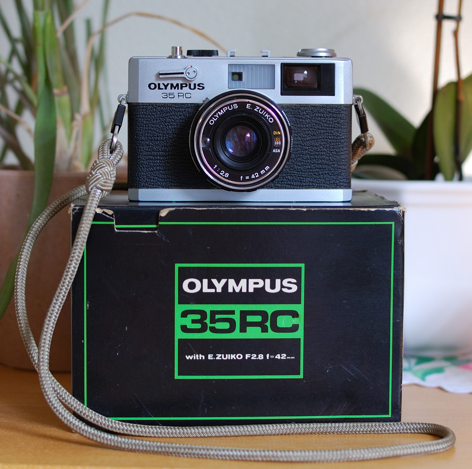 This excellent camera has been described extensively elsewhere. Luckily, I bought mine before Ken Rockwell reviewed it and prices started to climb... None of this was in the seller's description, but this example came in the box as shown, with instruction booklet and original receipt. It had been cleaned, the light seals replaced, a battery and Oly lens cap fitted. The braided silk strap was also included, and is excellent for use with a small, light camera such as this.